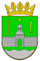 Novgorod-siversky rayon gerb